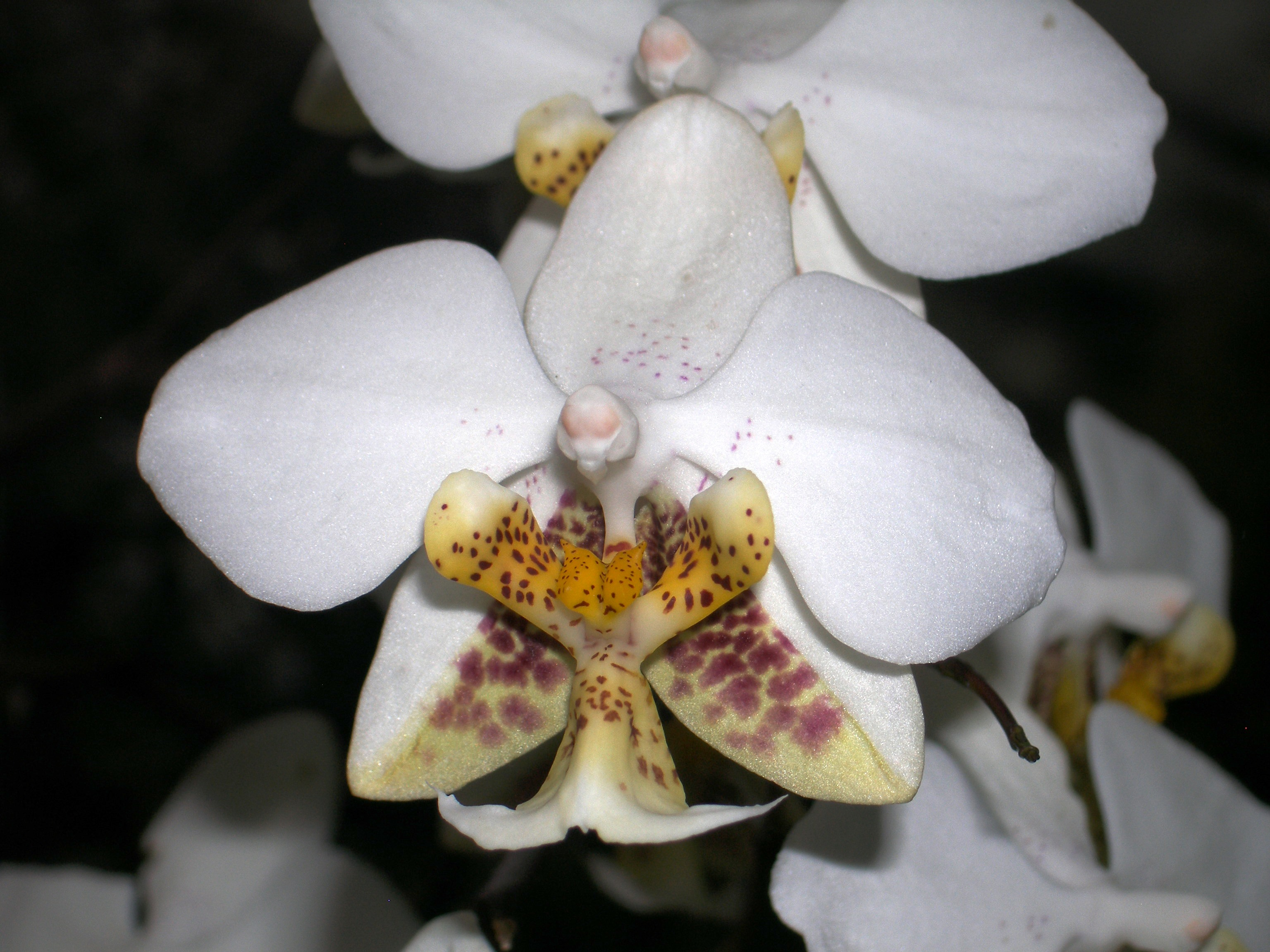 Phalaenopsis stuartiana. Specimen in cultivation at the Wilhelma Zoologisch-Botanische Garten, Stuttgart, Germany.